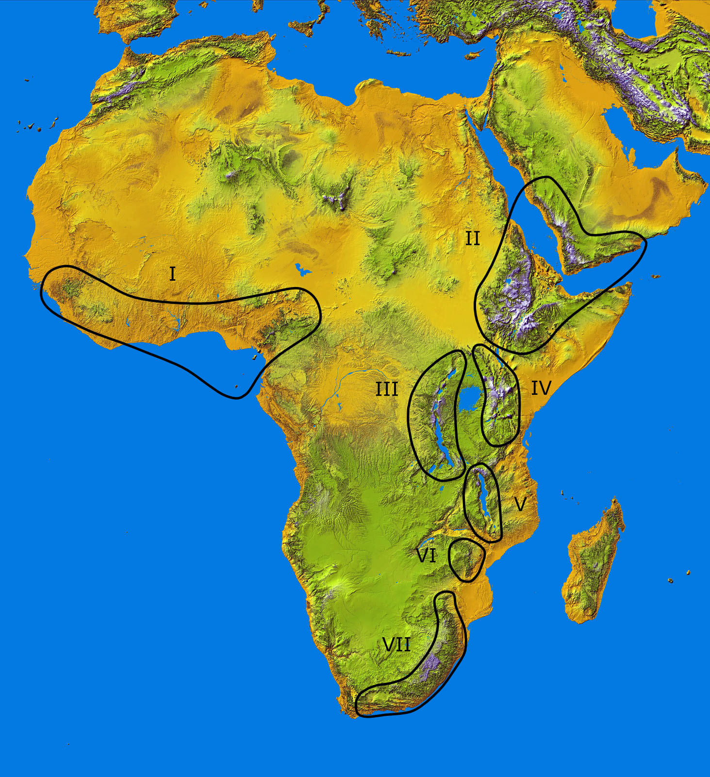 Afromontane Zones of the African Continent and Arabian Peninsula.